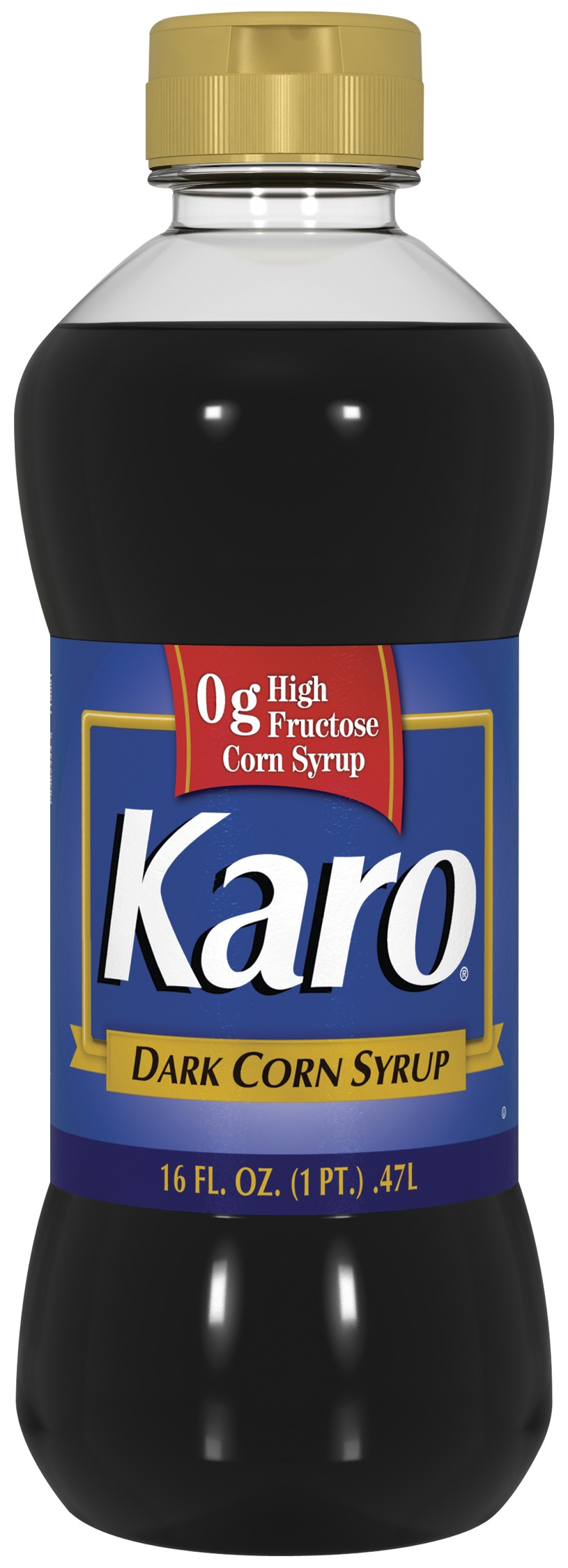 Karo Dark Corn Syrup